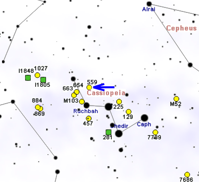 Map of NGC 559